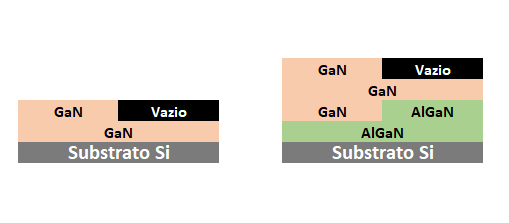 This is an example of a modeling of thin film structures for ellipsometry fiting